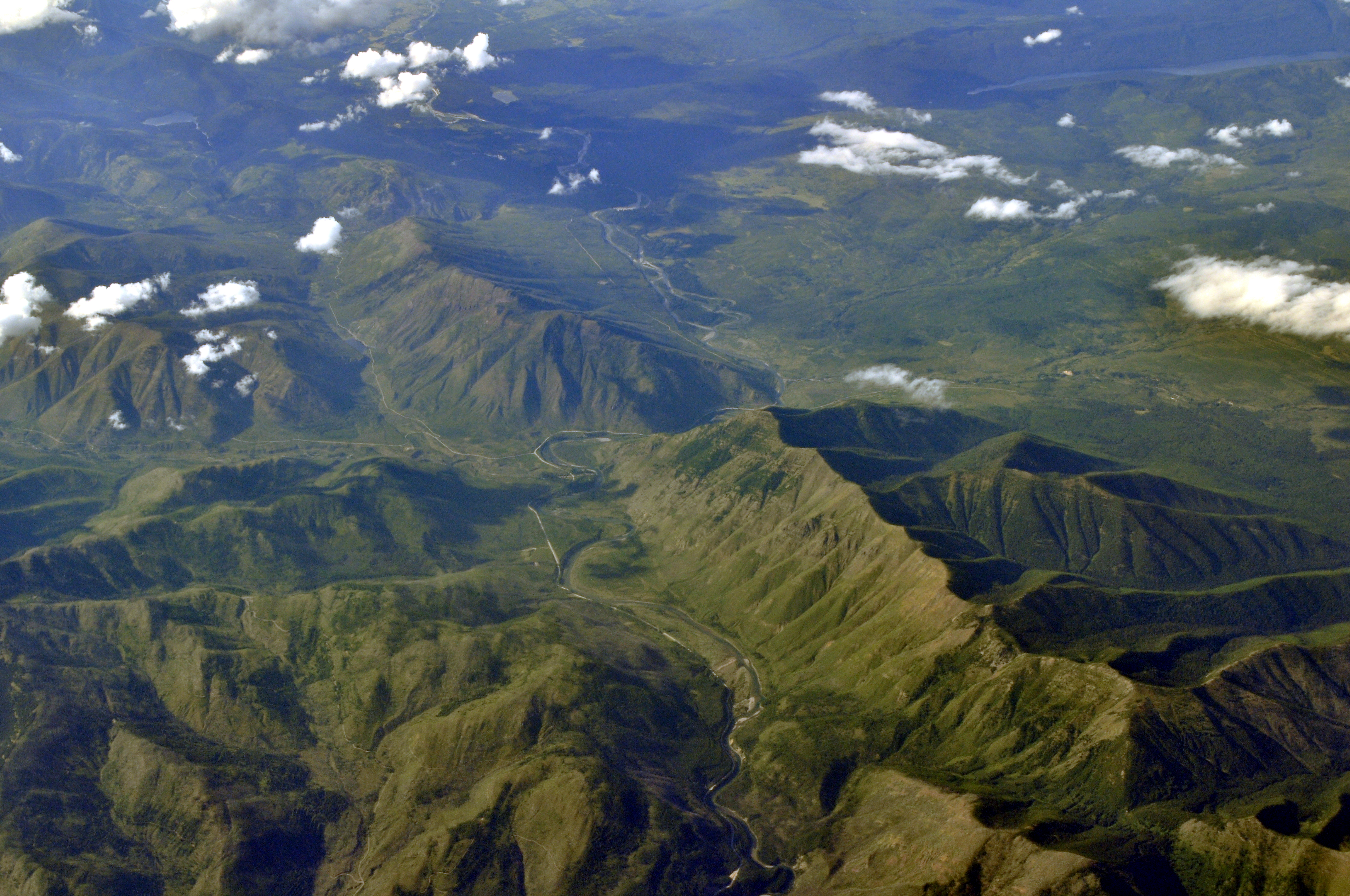 Aerial view from roughly south of the North Fork Flathead River in the U.S. state of Montana. The transverse portion of the river here is at: Object location48° 36′ 46.8″ N, 114° 09′ 21.6″ W .